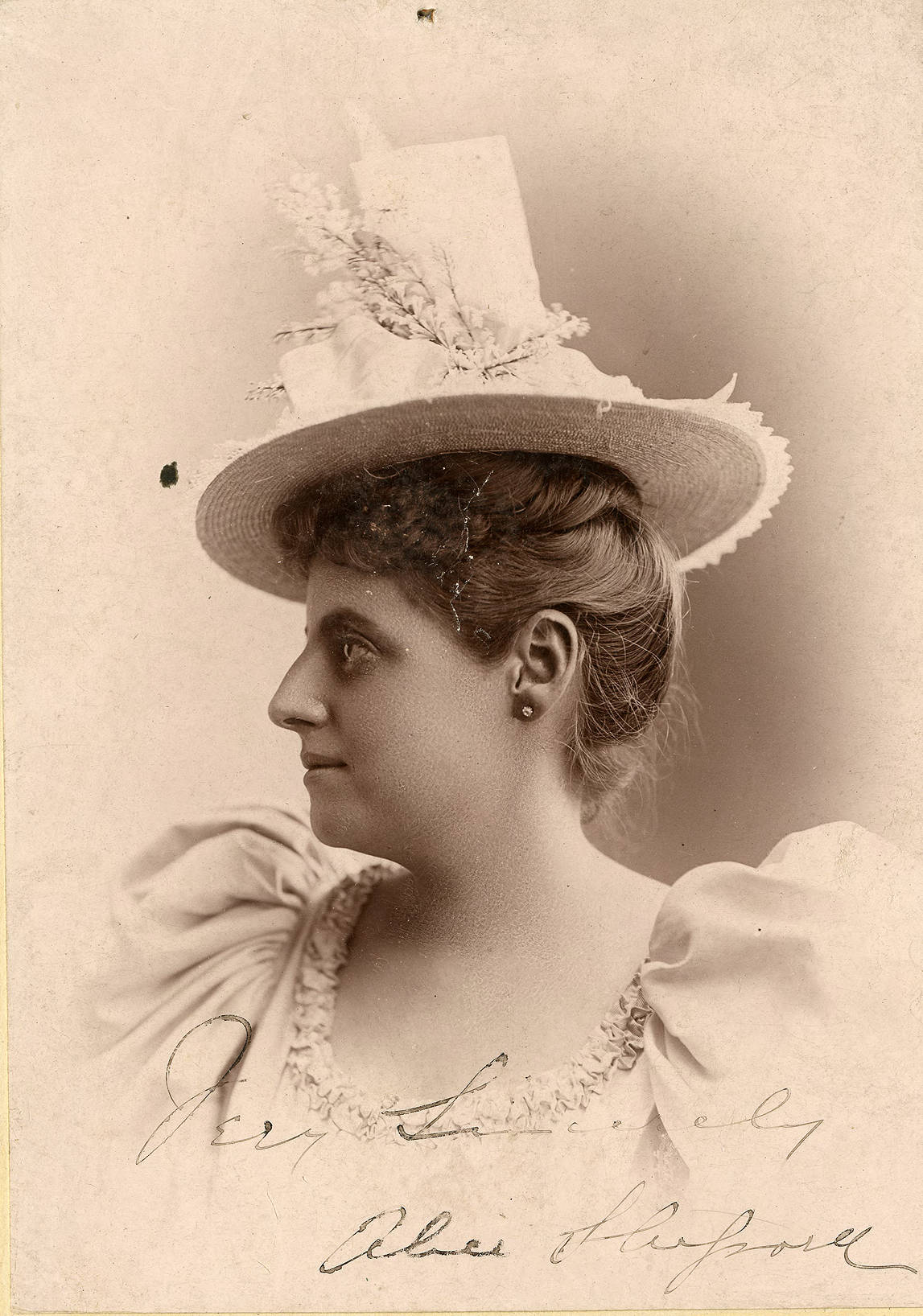 Alice Shepard, stage actress Subjects: actresses